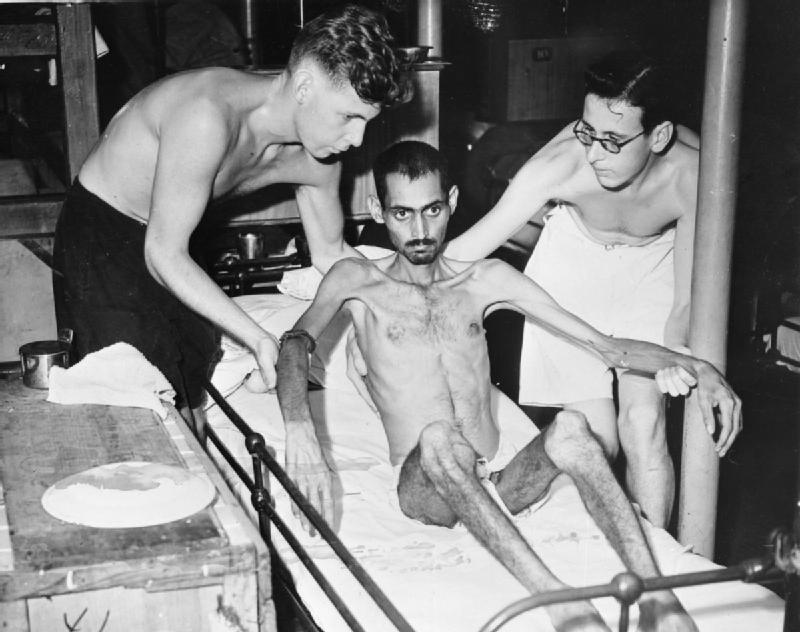 The Far East- Singapore, Malaya and Hong Kong 1939-1945 Occupation and Captivity February 1942 - August 1945: The meagre rations resulted in many cases of severe malnutrition. An Indian prisoner of war from Hong Kong is attended to by nursing staff (Sick Berth Attendant Hodson and Leading Sick Berth Attendant Mitchell) on board the hospital ship OXFORDSHIRE after liberation.